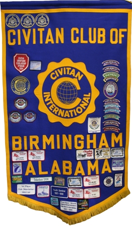 Photo of a Civitan Club's banner.